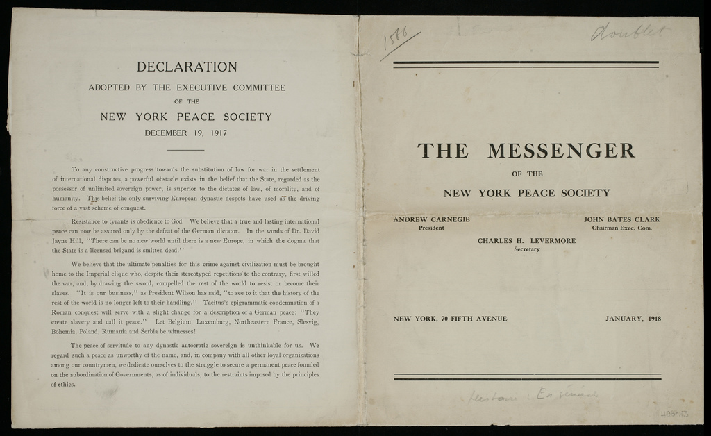 The Messenger of the New York Peace Society. Andrew Carnegie (president); Charles H. Levermore (secretary); John Bates Clark (chairman exec. com) New York: 1918